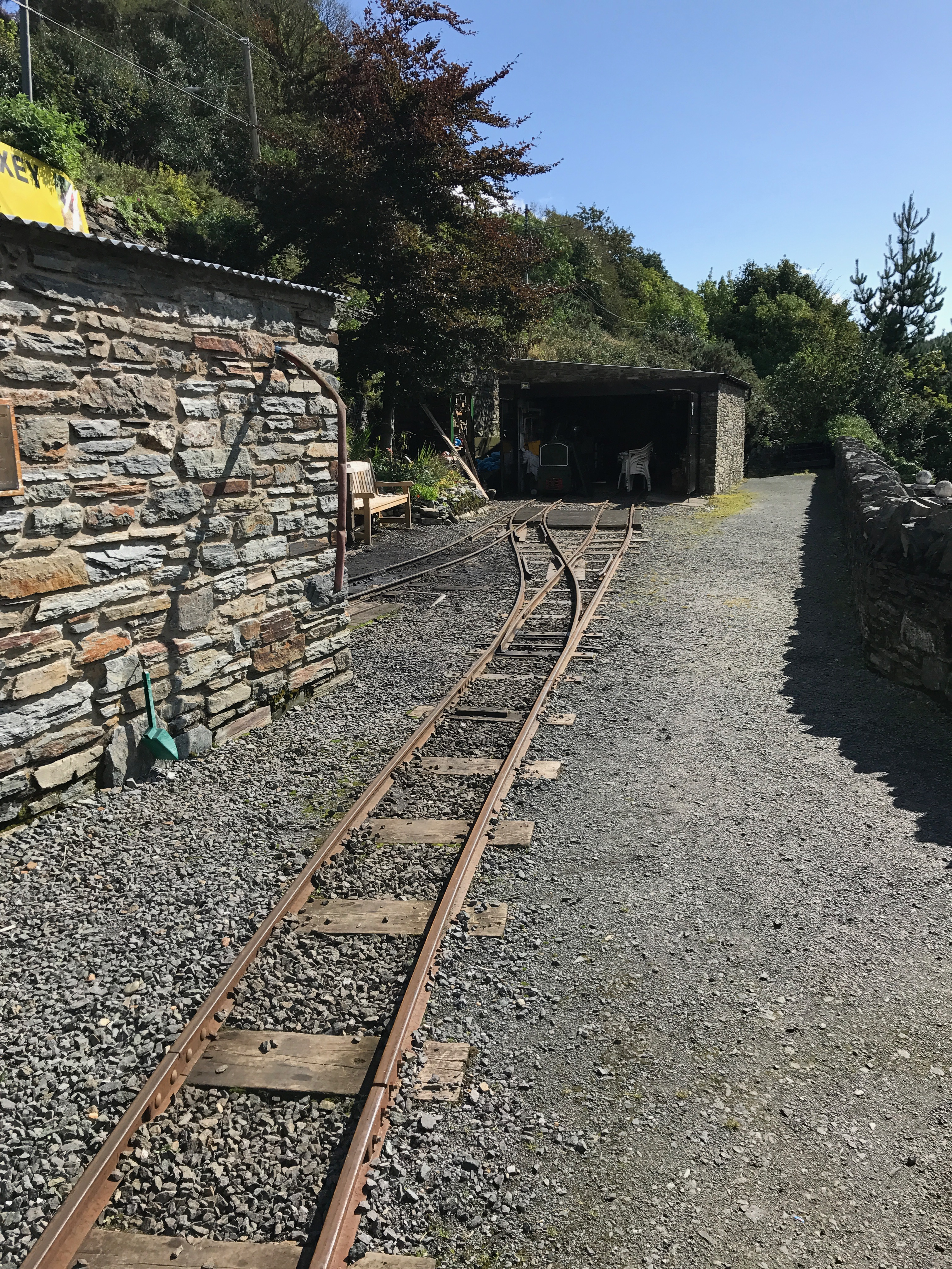 The engine and carriage sheds at Valley Gardens on the Great Laxey Mine Railway, Isle of Man. Locomotive 'Wasp' is visible, undergoing maintenance.